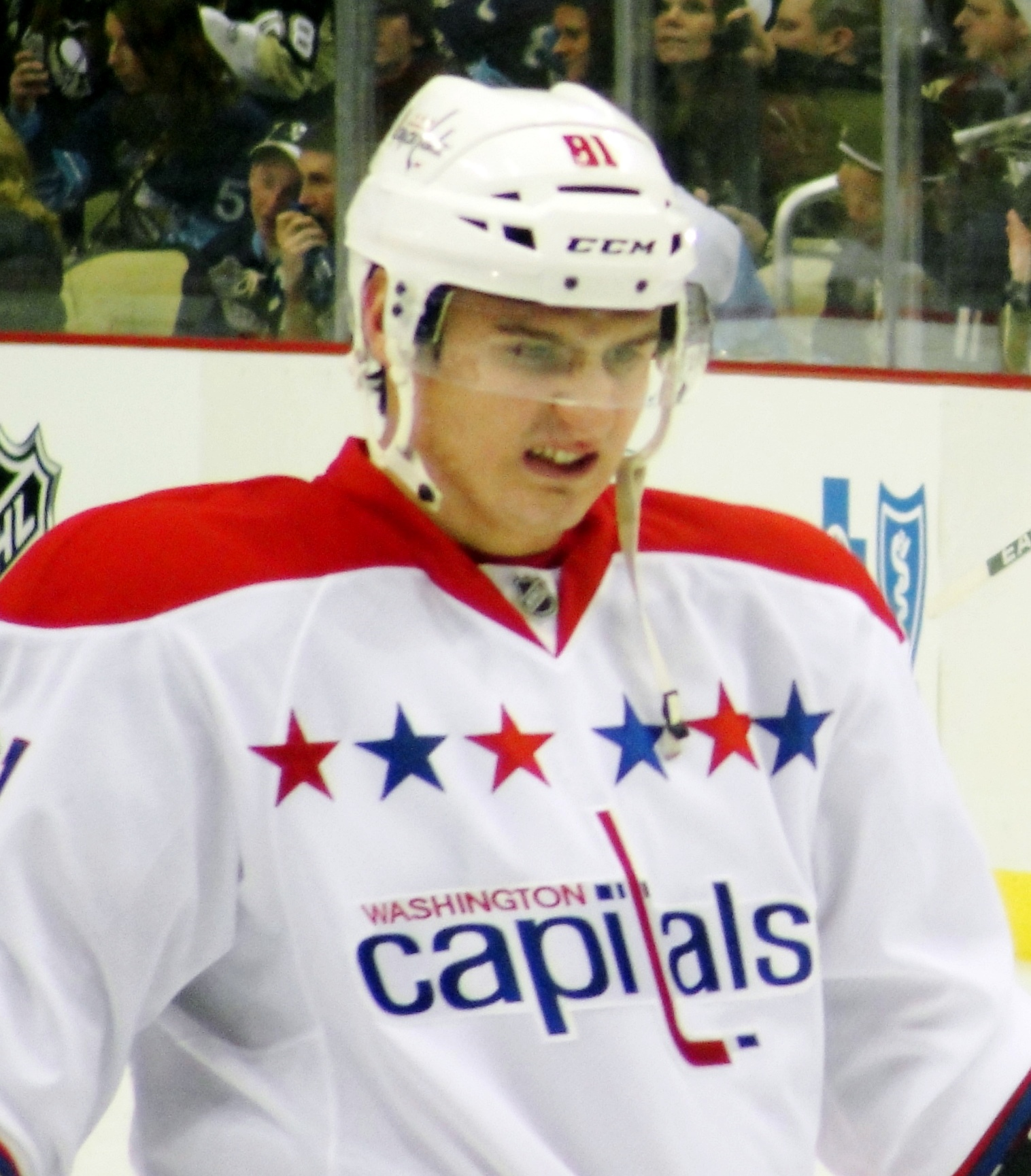 Dmitri Orlov skating for the Washington Capitals against the Pittsburgh Penguins, January 22, 2012 at Consol Energy Center in Pittsburgh, PA.